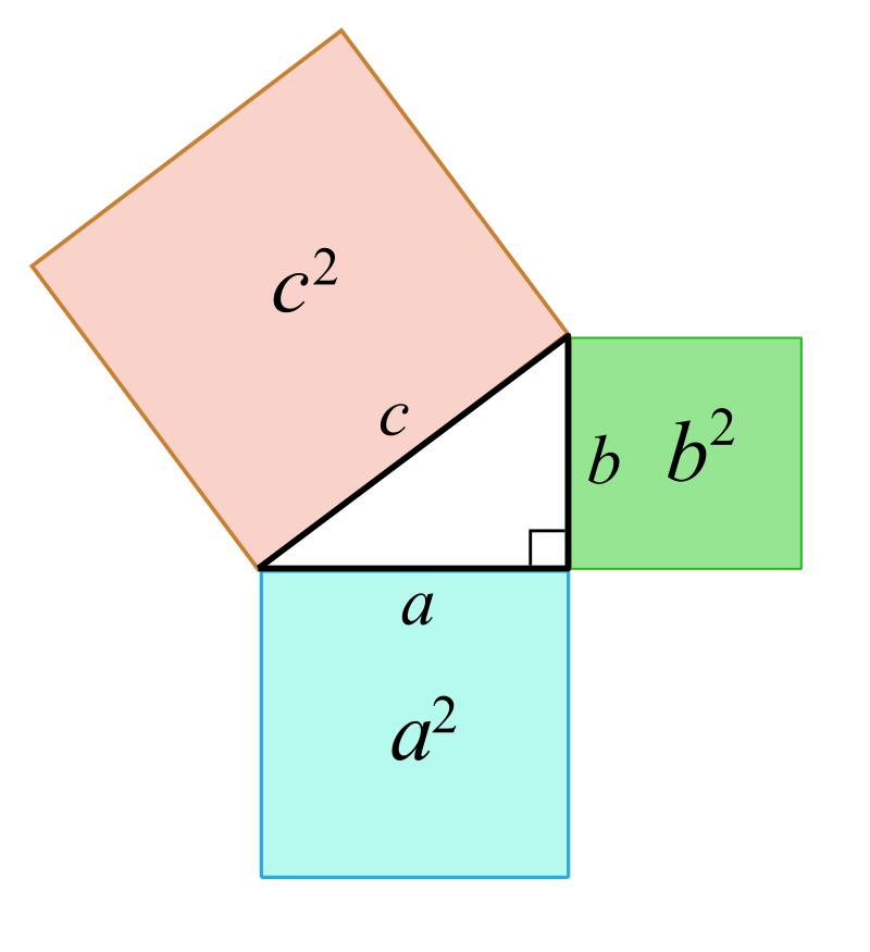 Pythagoras theorem